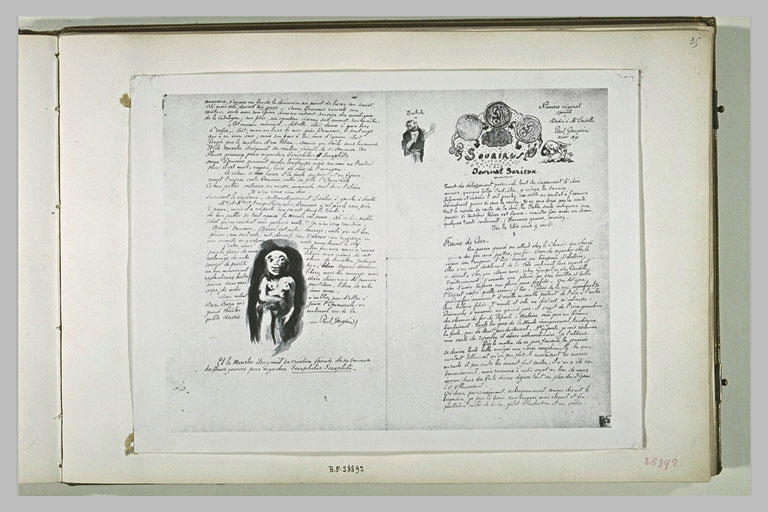 A drawing of Gauguin's Oviri figure.